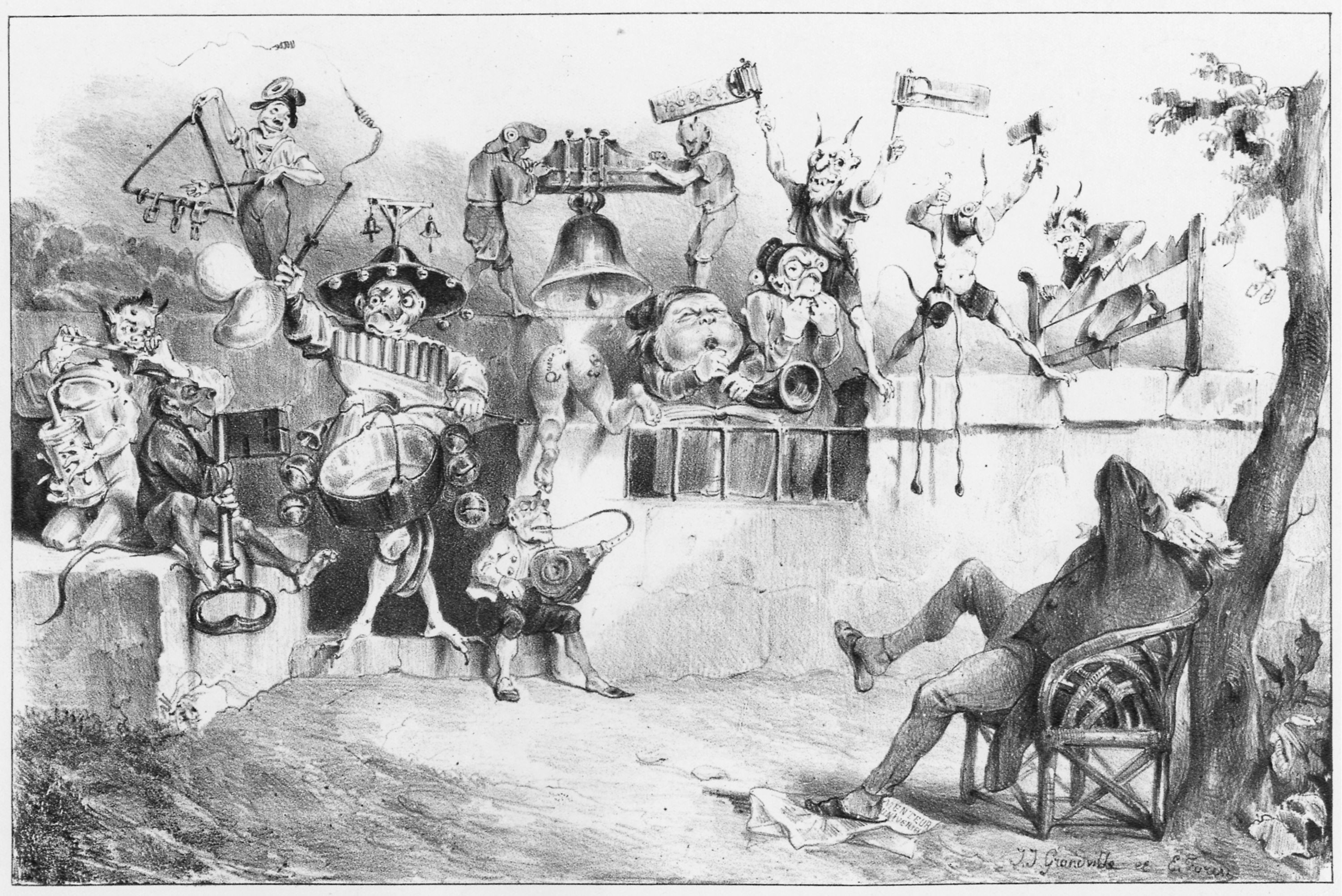 Grandville, french illustrator (1803–1847), »La Caricature«, Paris, 1831-09-01